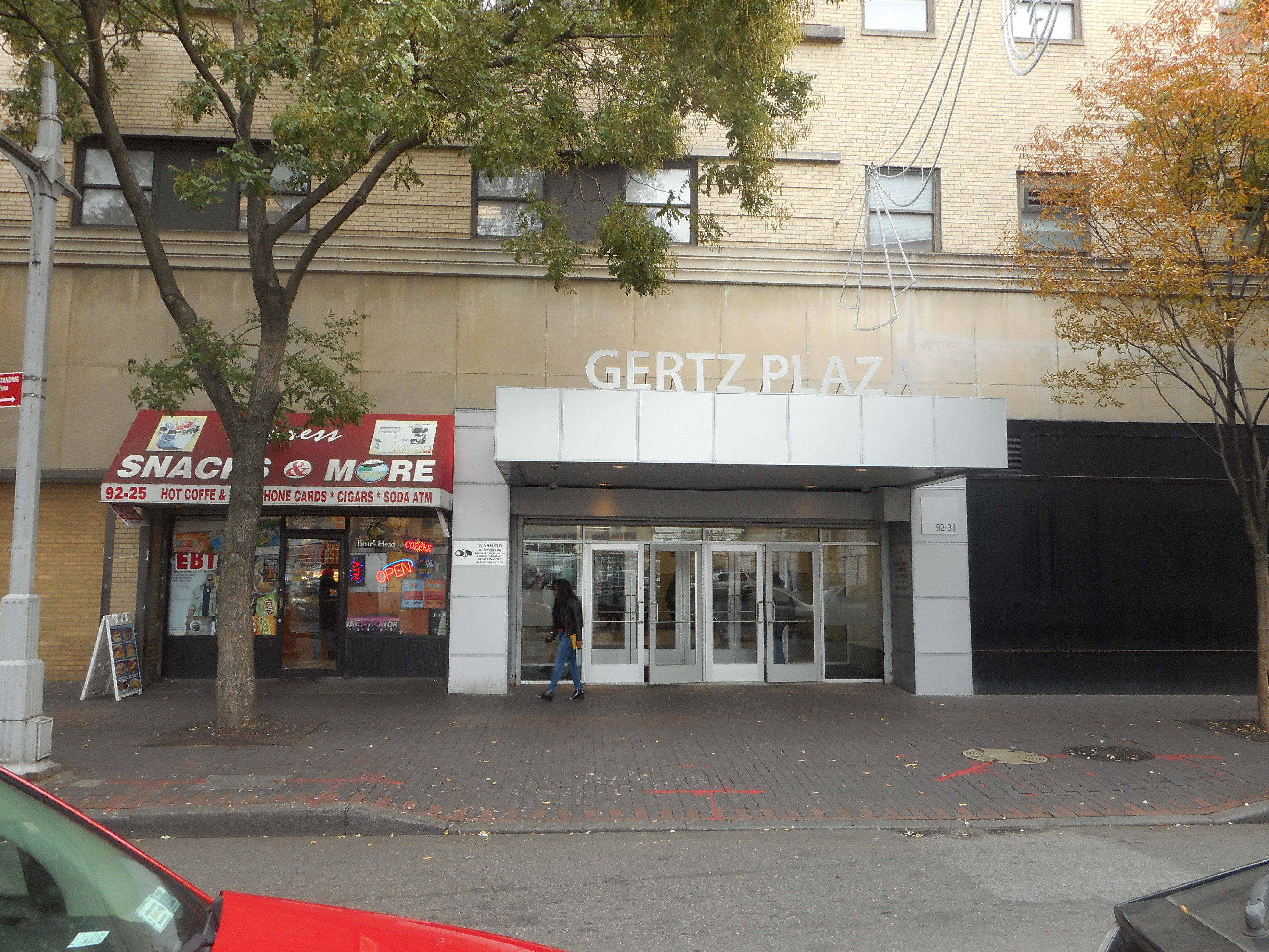 The Gertz Plaza Mall entrance on Union Hall Street between Archer Avenue and Jamaica Avenue in the Jamaica section of Queens, New York City.